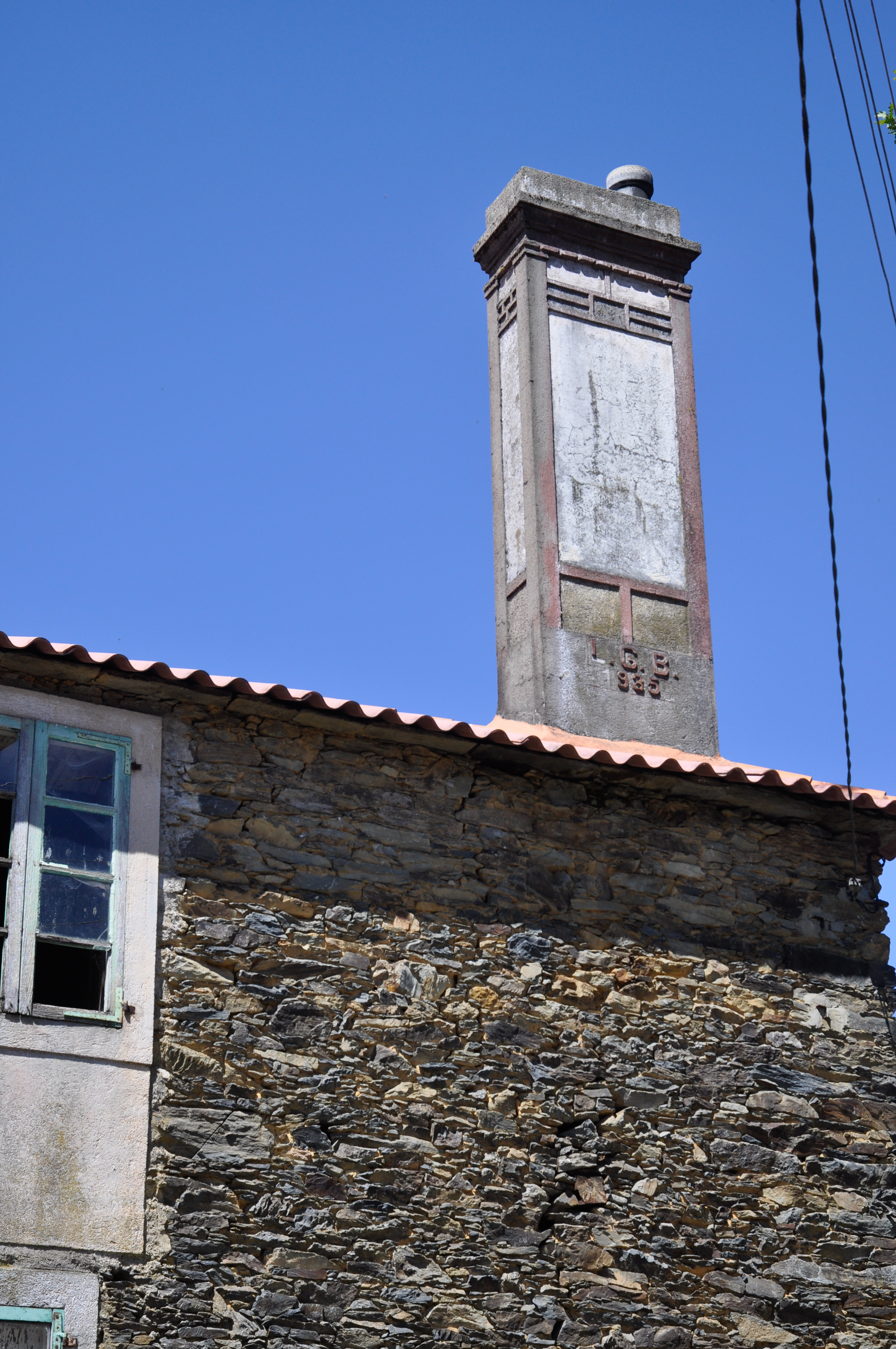 Traditional house with a big chimney in the parish of Lema, Arzúa, Galicia, Spain.